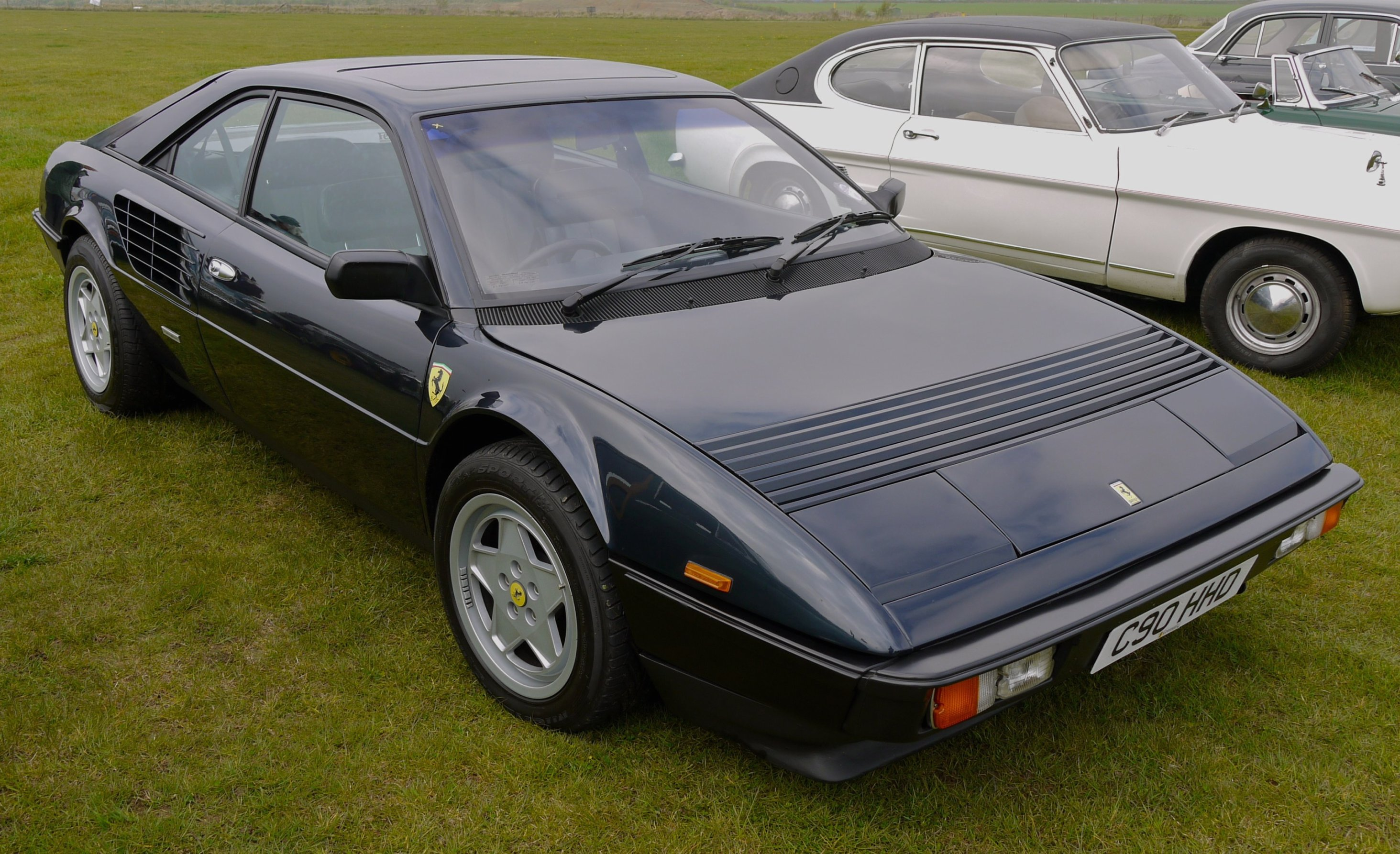 1985 Ferrari Mondial Quattrovalvole (2926cc)